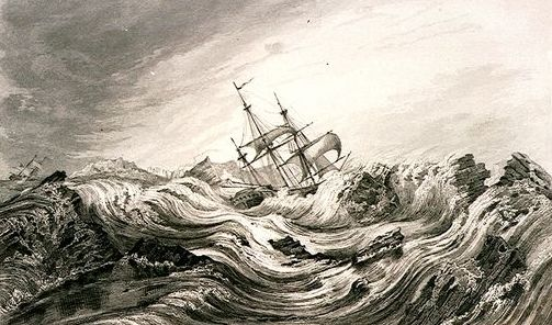 HMS Dorothea shown in The Expedition Driven into the Ice, July 30th 1818